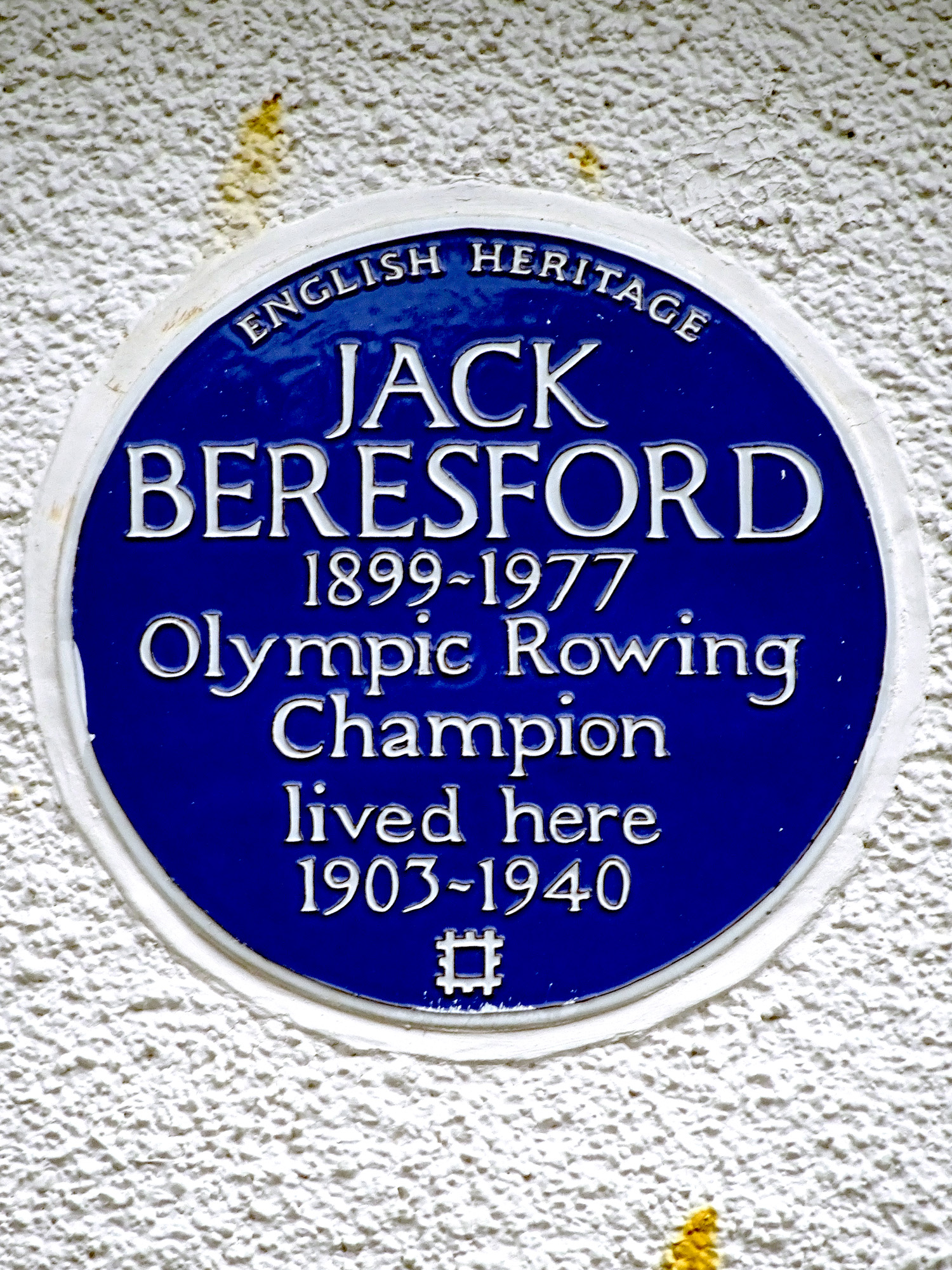 Blue plaque erected in 2005 by English Heritage at 19 Grove Park Gardens, Chiswick, London W4 3RY, London Borough of Hounslow